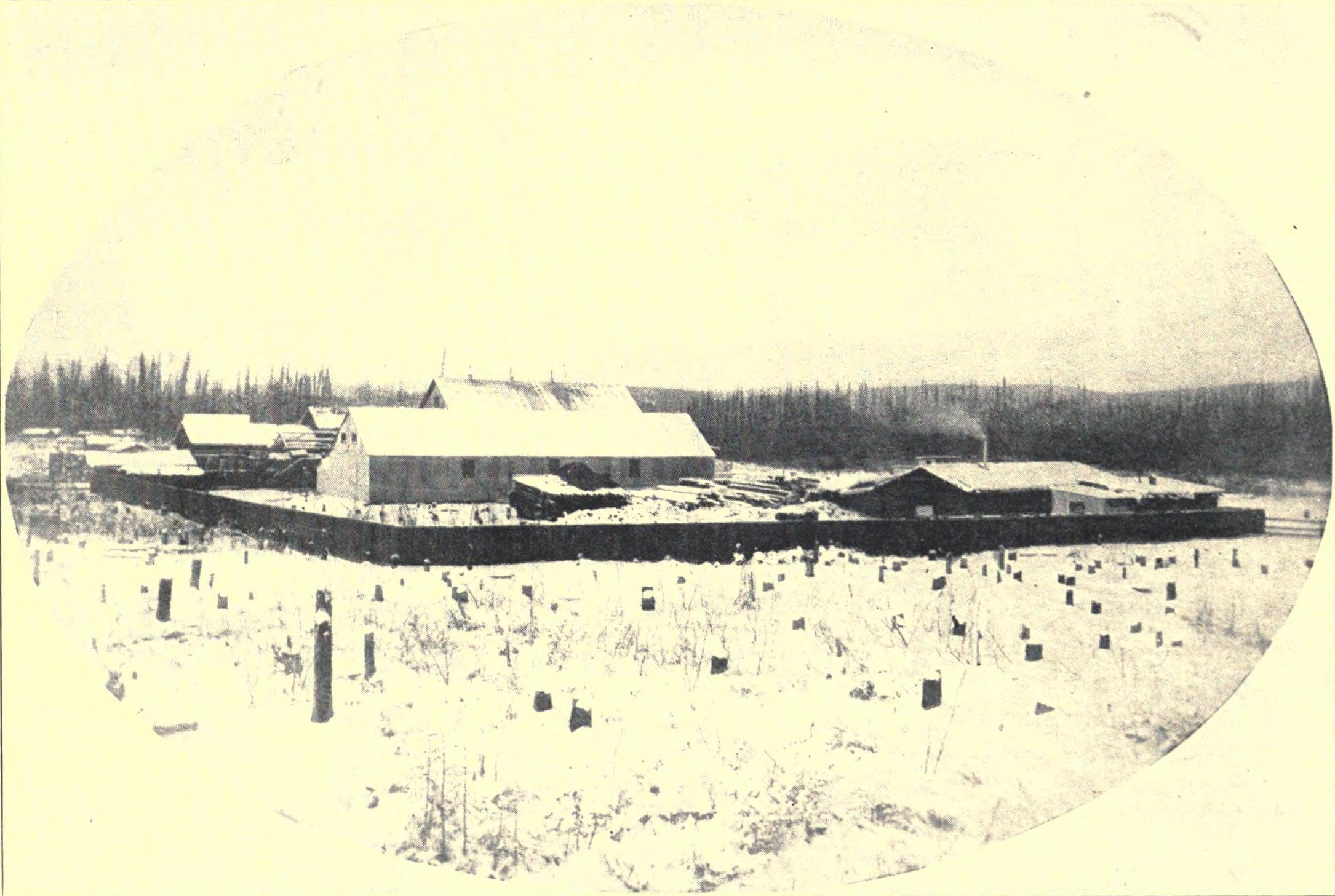 The first camp Fairbanks, Alaska, 1903